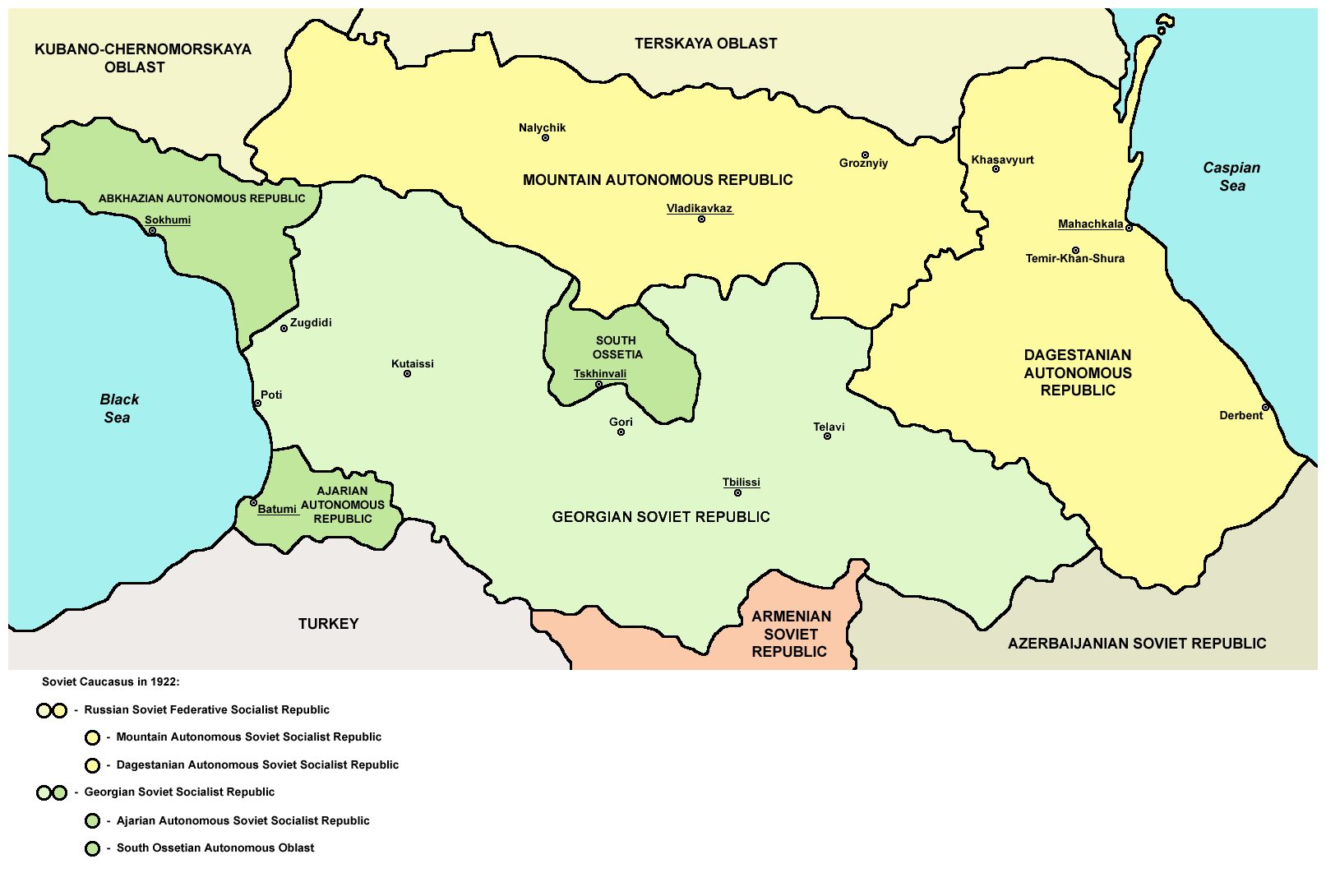 Newly sovietized Caucasus, 1922: Russian SFSR: Mountain ASSR, Dagestan ASSR. Georgia SSR: Abkhazia ASSR, Ajara ASSR, South Ossetia AO. Note: This is derived from erroneous file:Soviet caucasus1922.png and corrected after authentic Soviet maps (establishment of the soviet union, 1922 (archived) from )